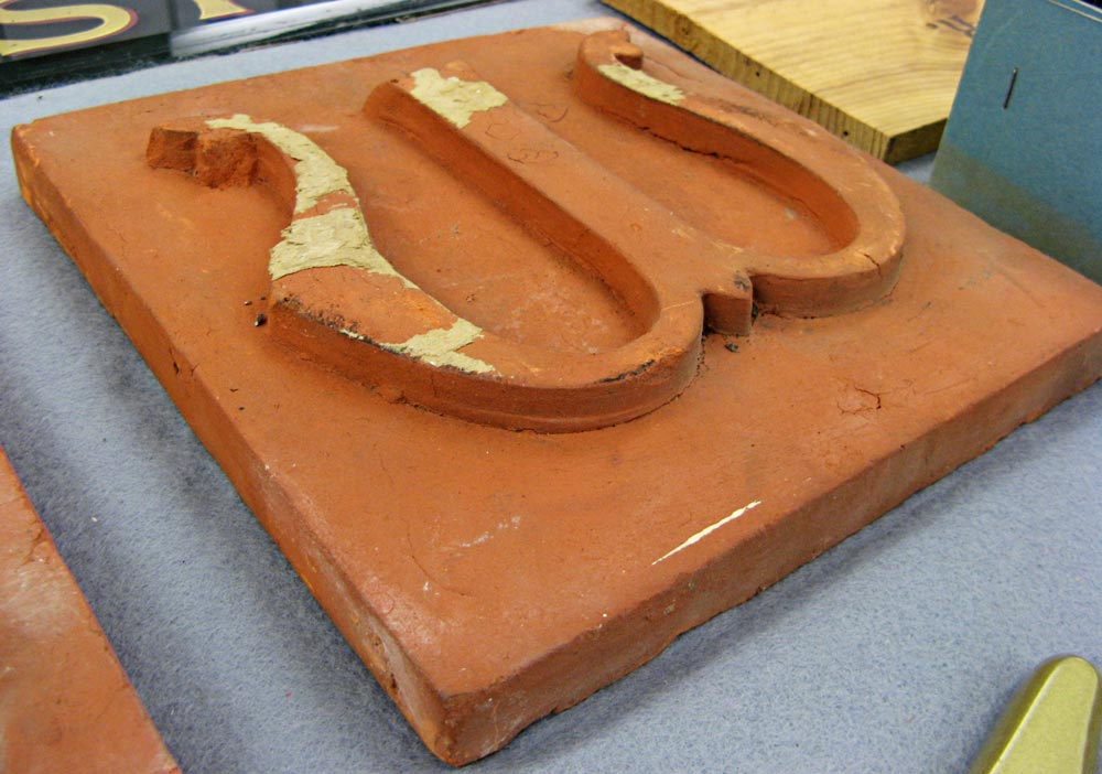 Ceramic type. With larger type sizes metallic type would have been very heavy and thus difficult to handle.